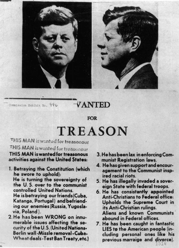 "Wanted for Treason" leaflet distributed in Dallas